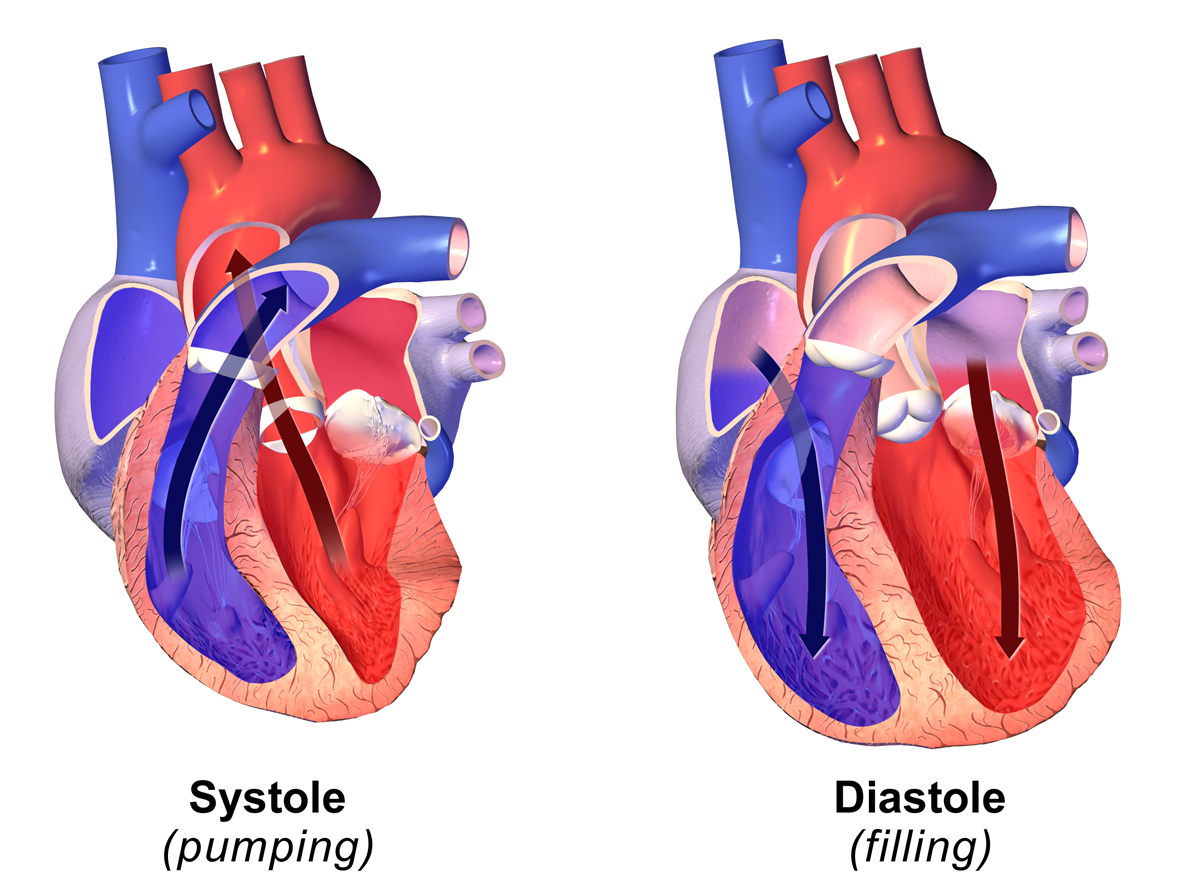 Systole vs Diastole. See a full animation of this medical topic.